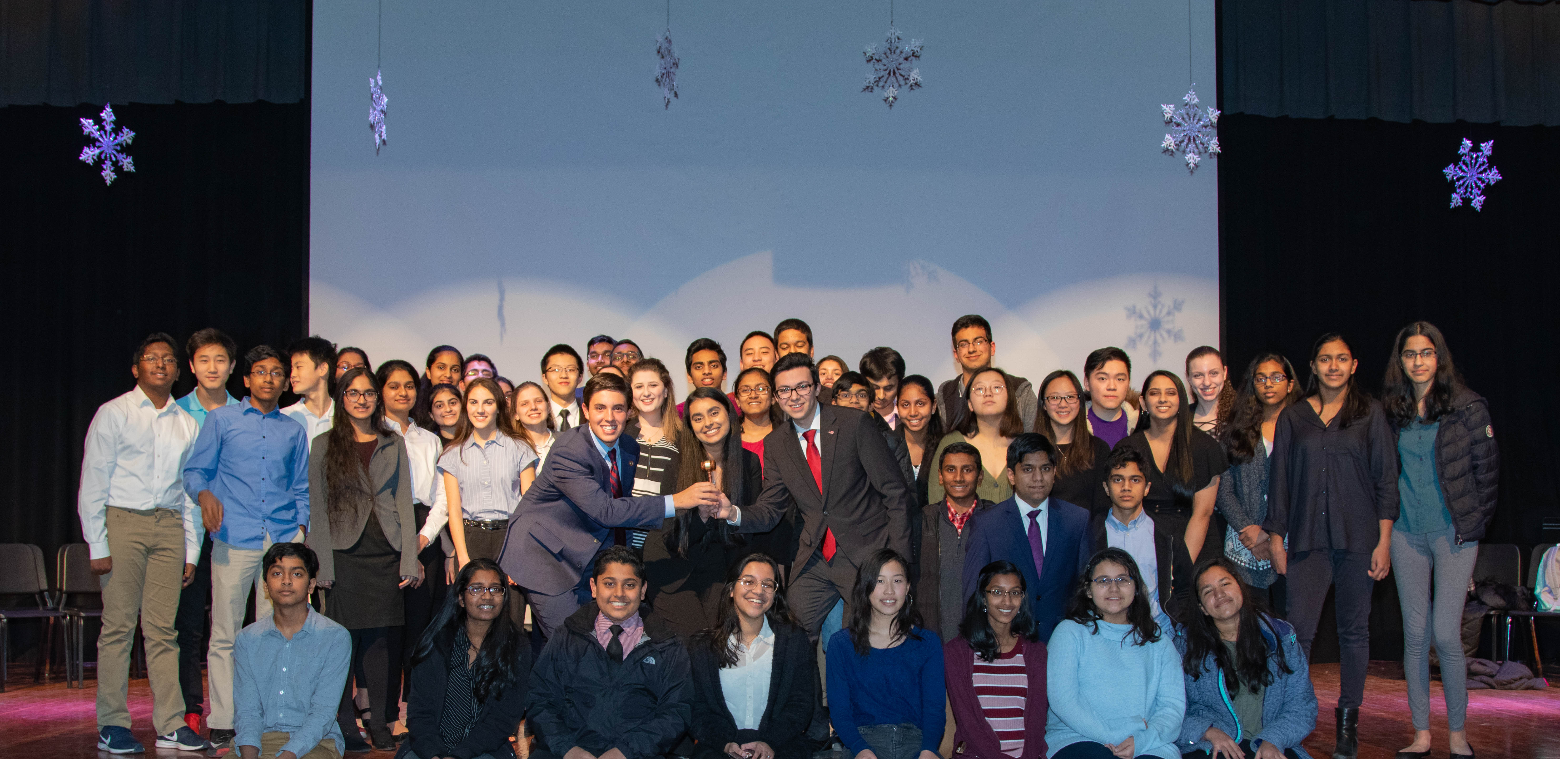 BRMUN Team Poses for a Group Picture at BRMUNC II